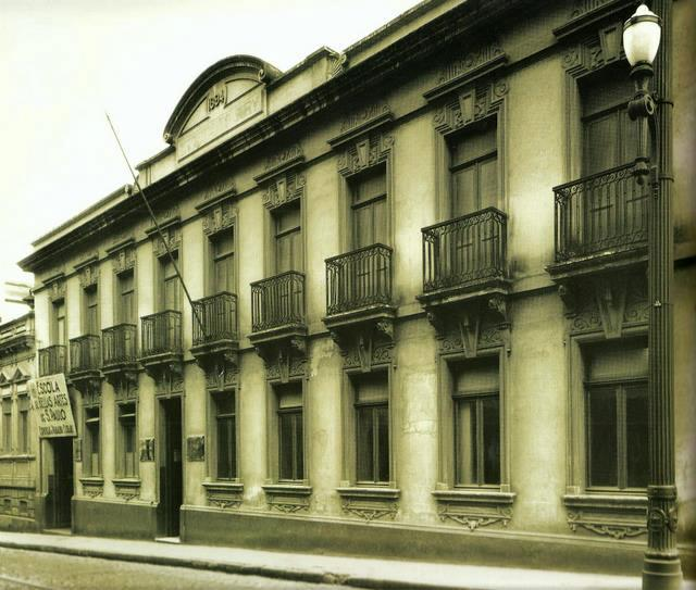 Former building of the Pinacoteca do Estado at Rua Onze de Agosto, at the beginning of the thirties.